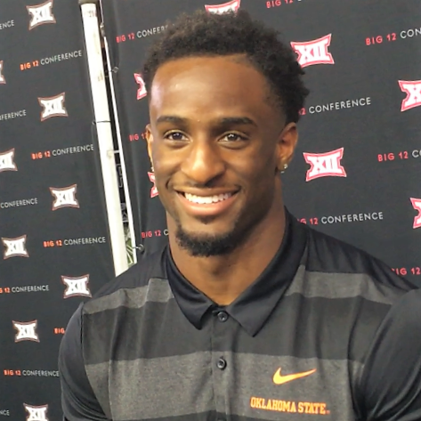 Justice Hill, running back of the Oklahoma State Cowboys football team, at the 2018 Big 12 Conference Media Days in Frisco, Texas.